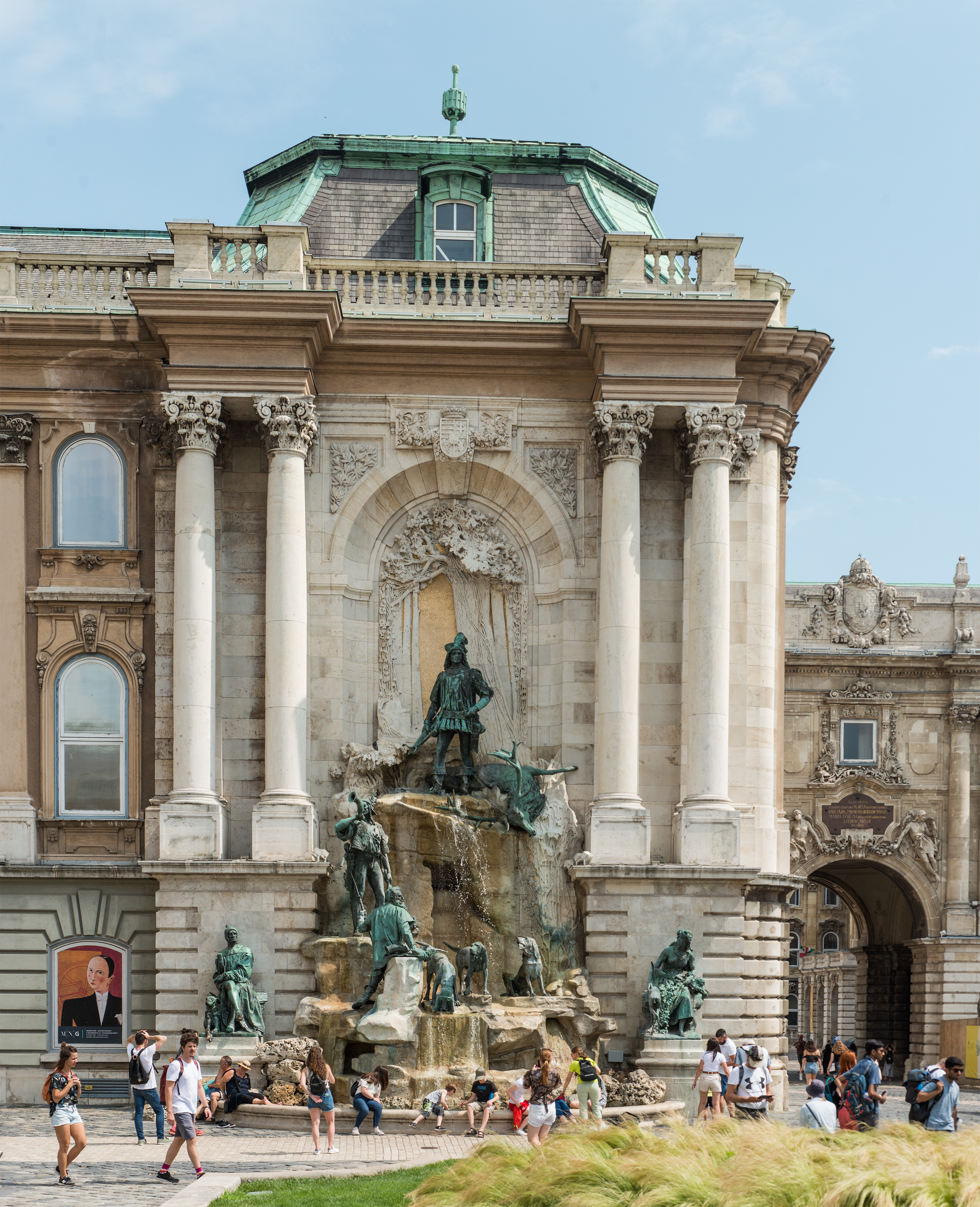 The famous Matthias Fountain in a forecourt of Buda Castle in Budapest is surrounded by tourists.